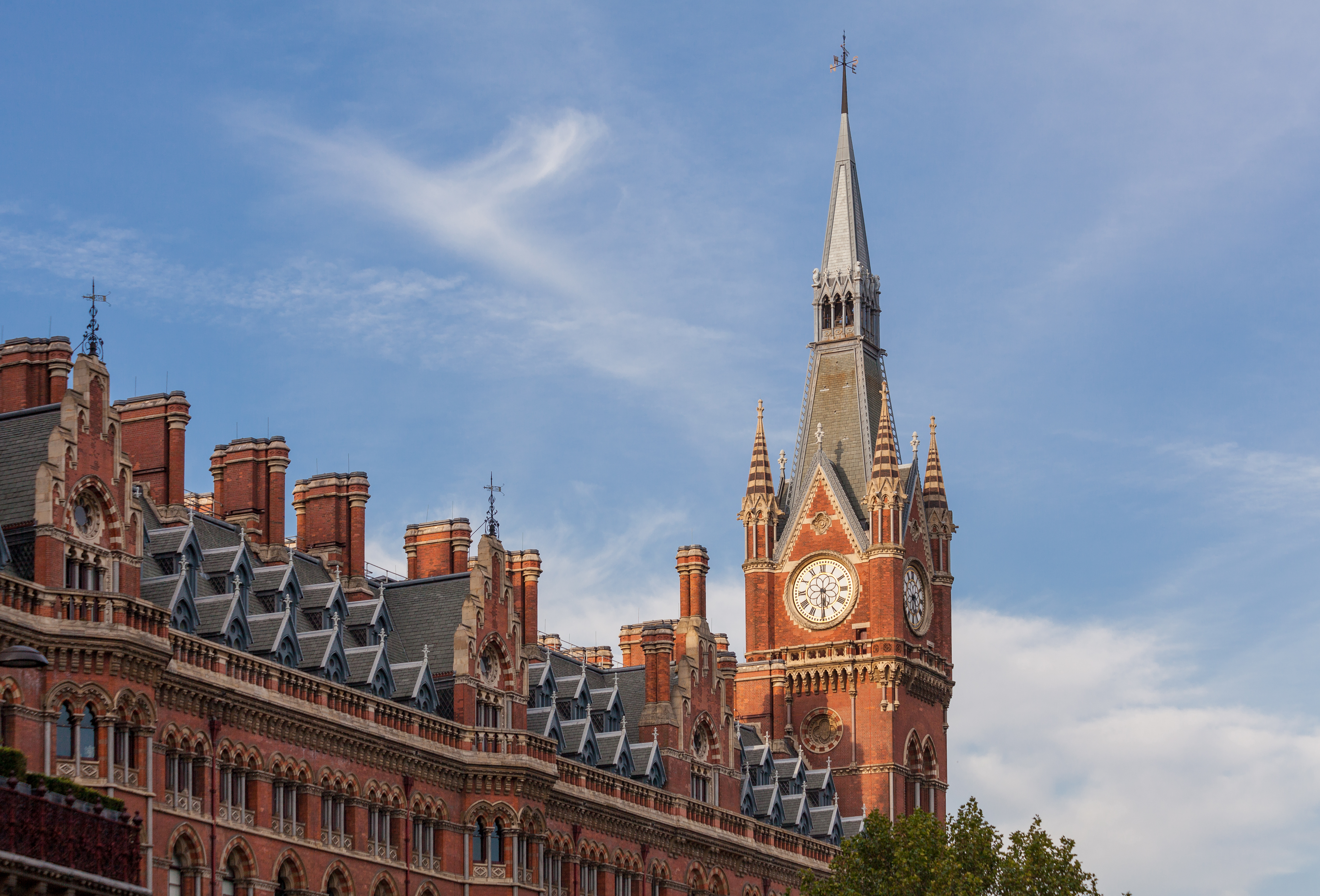 St Pancras railway station in London.